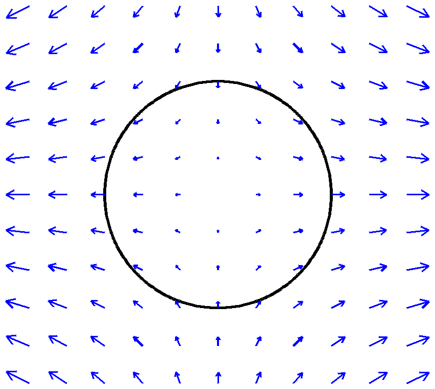 Tidal forces resulting from Newtonian gravity. A gravitational field is generated by a mass off the right. Tidal forces are calculated by subtracting the value of this field at the center of a "moon" - the center of the circle illustrated. This leaves as a residual the forces illustrated. Note that the forces have been calculated from the more accurate (1/r2 - 1/r02) version, not the l/r3 approximation. The field is not quite perfectly symmetrical and the mass generating the gravitational field is indeed off to the right, not the left. Note that in addition to the commonly-described "forces" in the direction of the sun-moon axis, there are smaller (1/2 as big) forces perpendicular to this. See-also: Discuter:Sphère de Hill (the Dérivation sub-heading).